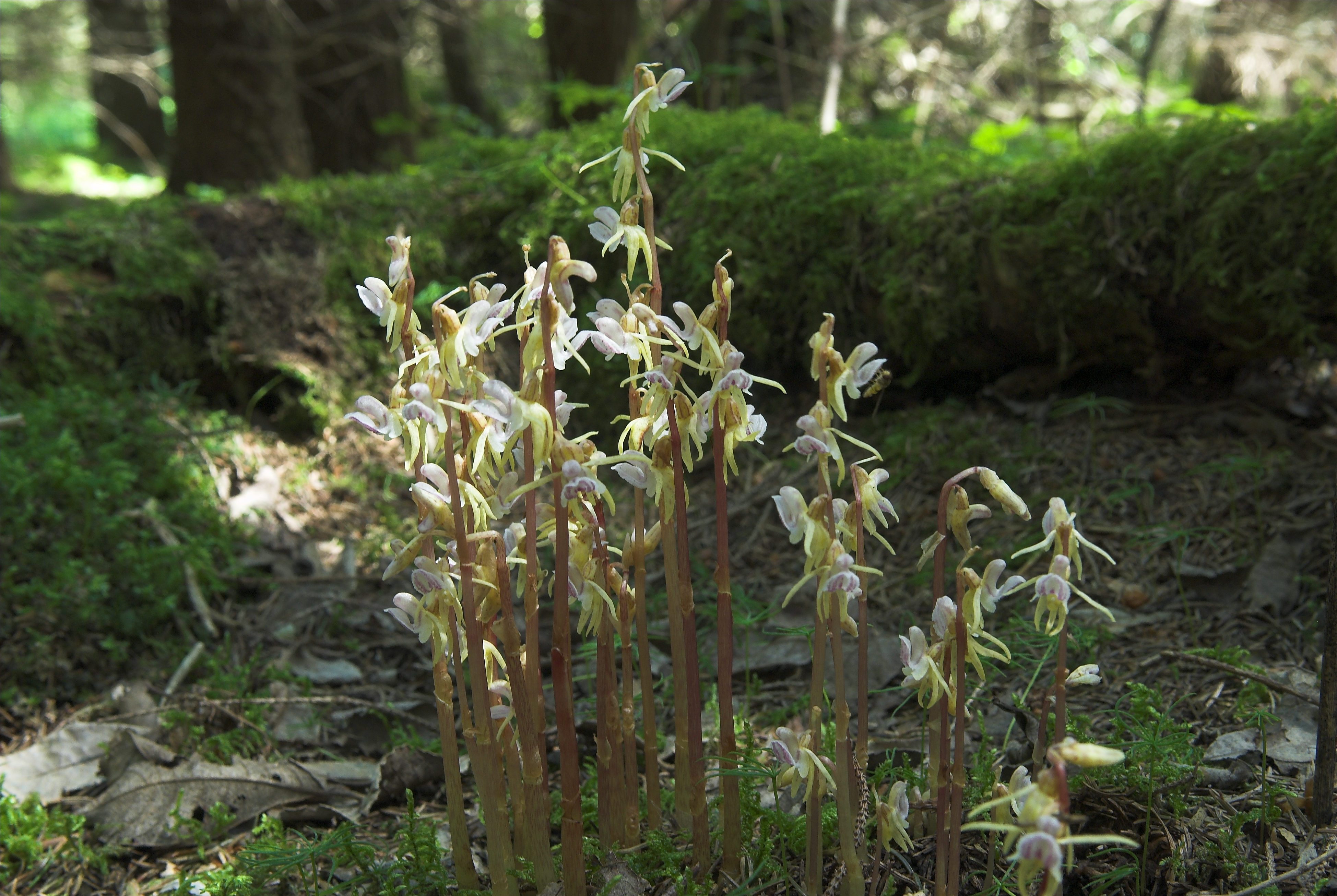 Epipogium aphyllum Hüfingen/Baar/Germany